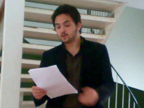 Cedric Wermuth, president of young socialist party of switzerland